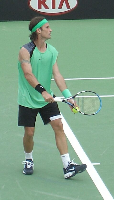 Carlos Moyà during his first round match of the Australian Open 2006. Moya lost the match.